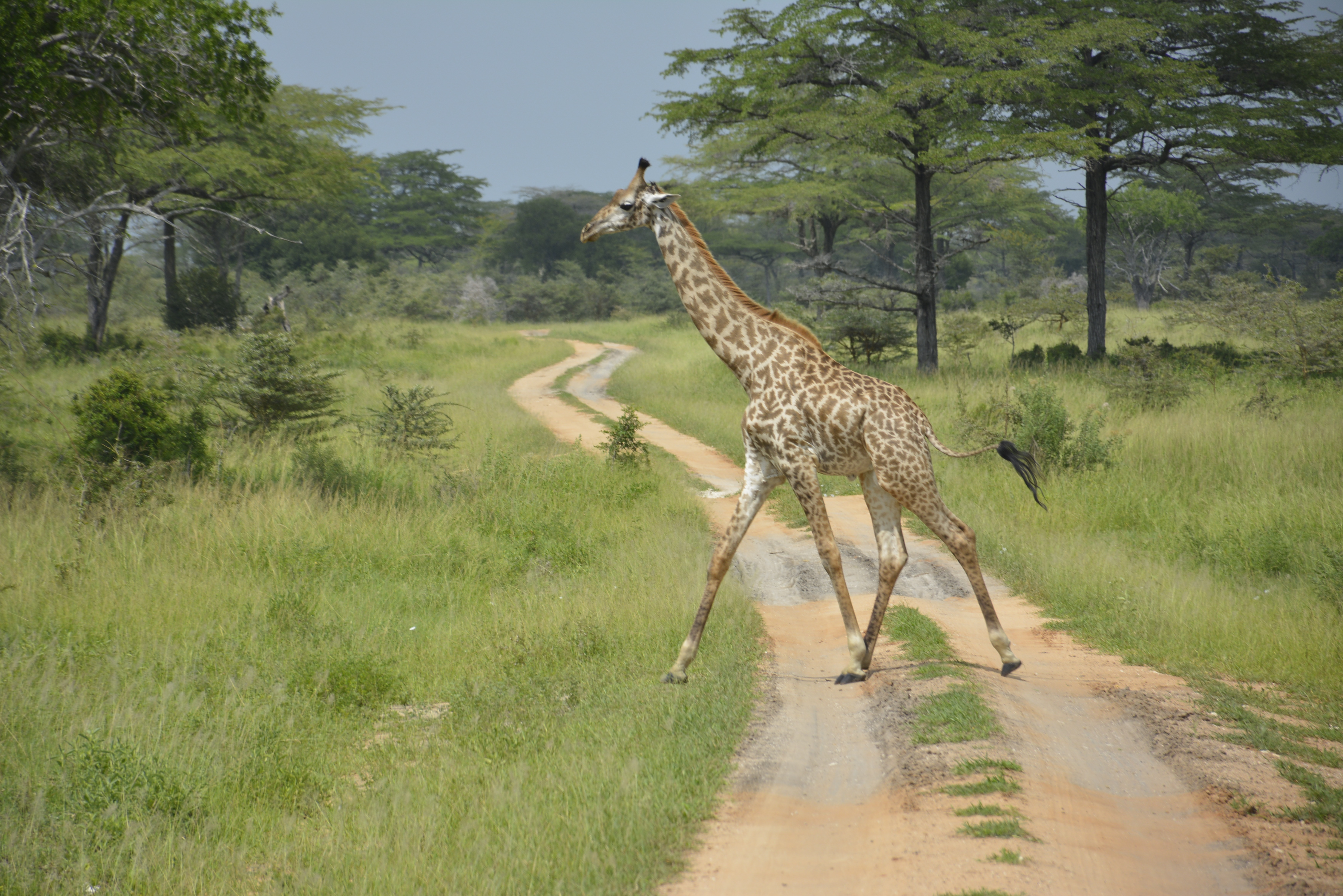 Giraffe crossing the road inside selous game reserve